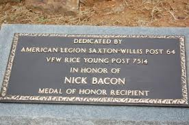 The dedication plaque at the flag pole in Heber Springs, AR. This file is free content and was scanned by the family of Nick Bacon from an image of their own creation in 2014 and is used with their permission. It has no copyright and is thus free to be used as public domain/free use.